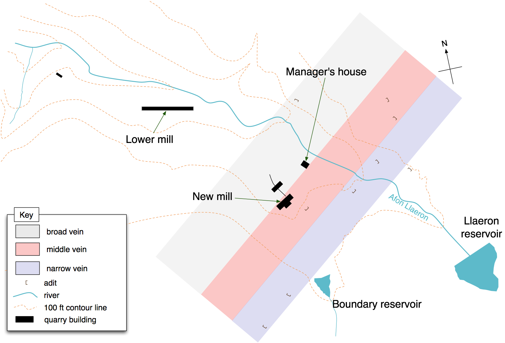 Map showing the geology of Bryn Eglwys slate quarry